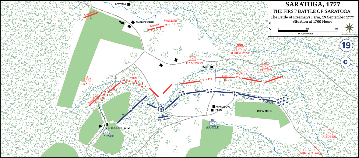 First Battle of Saratoga 1700 Hours